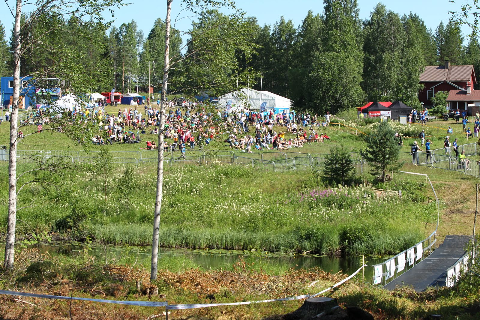 WOC 2013, Long Qual, 7th July 2013